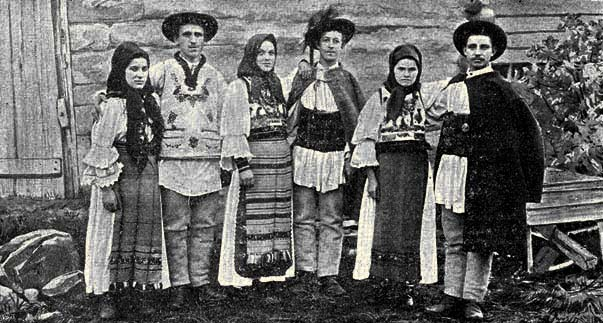 Romanian peasants in traditional attire, Dobric, Transylvania